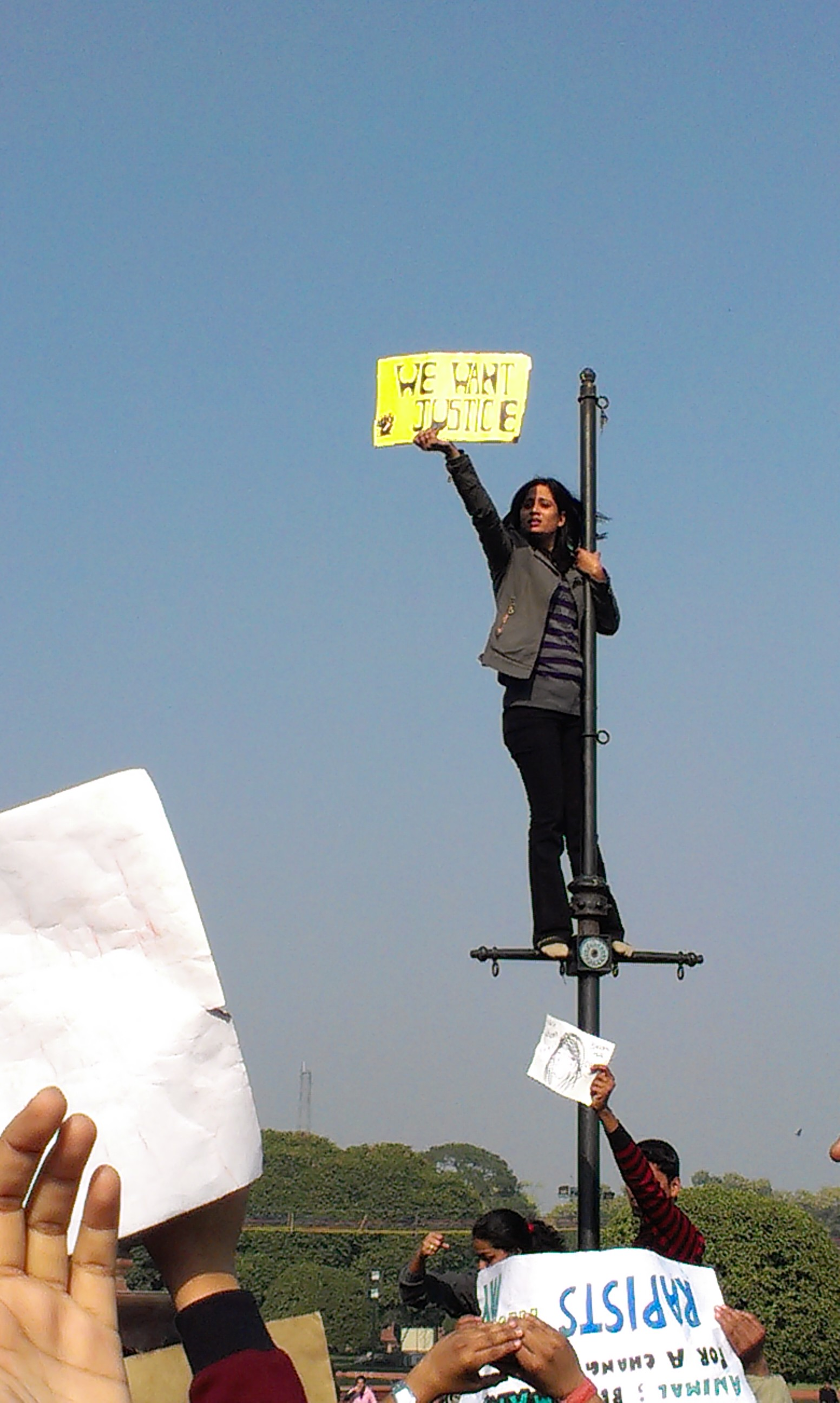 December 22, students protest the rising violence against women, Raisina Hill/ Rajpath